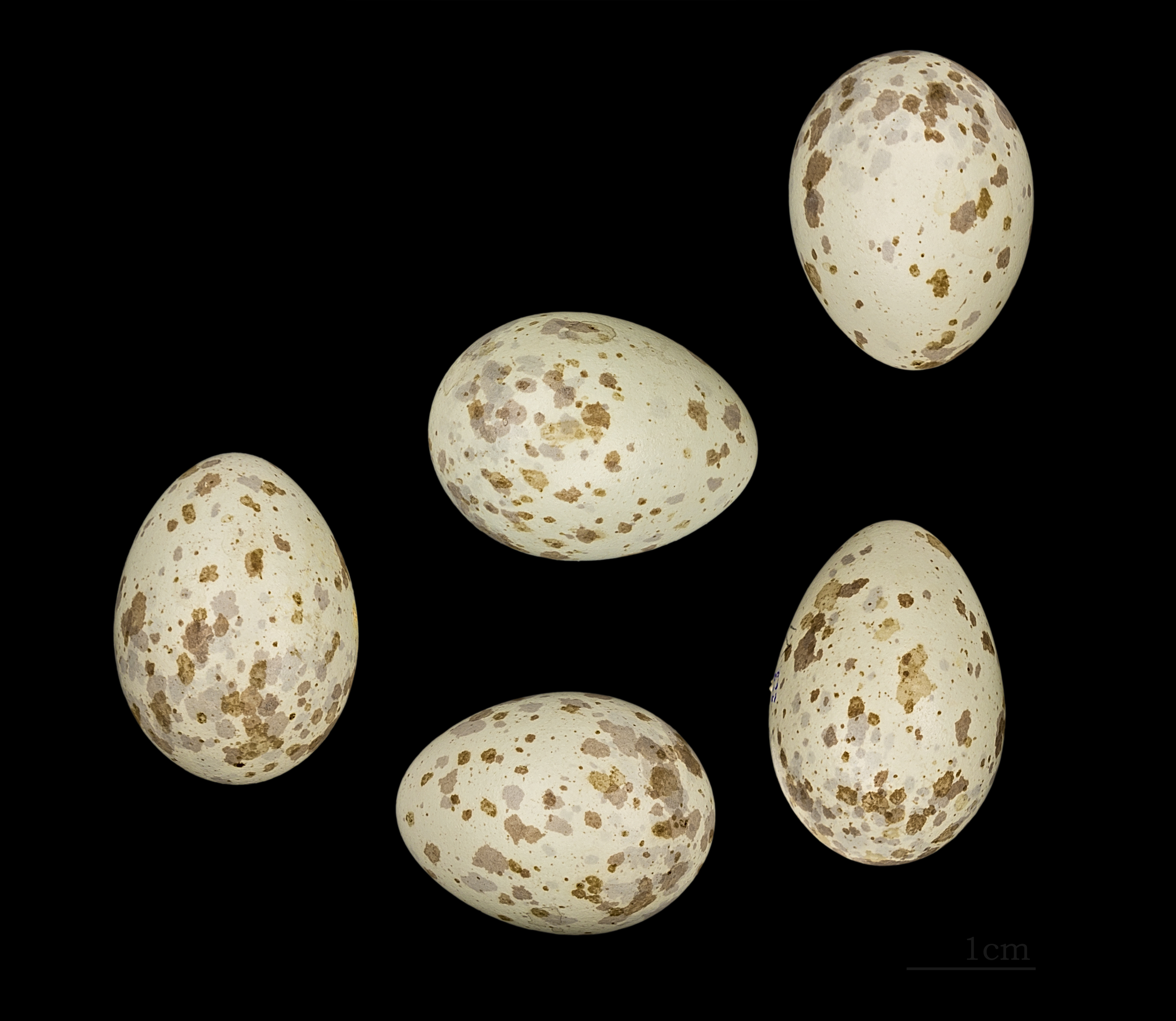 Egg of Lesser Grey Shrike. Collection of Henri Heim de Balsac/Jacques Perrin de Brichambaut.